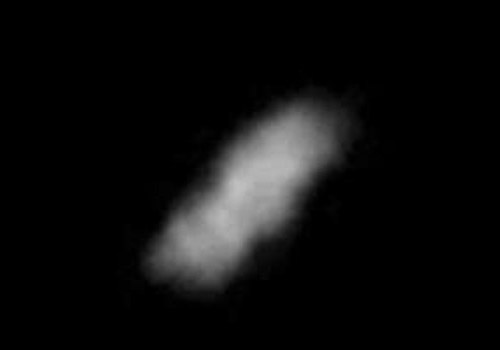 Naiad as seen by Voyager 2. The image is smeared due to the combination of long exposure needed at this distance from the Sun, and the rapid relative motion of the moon and Voyager. Hence, the moon appears more elongated than in reality.